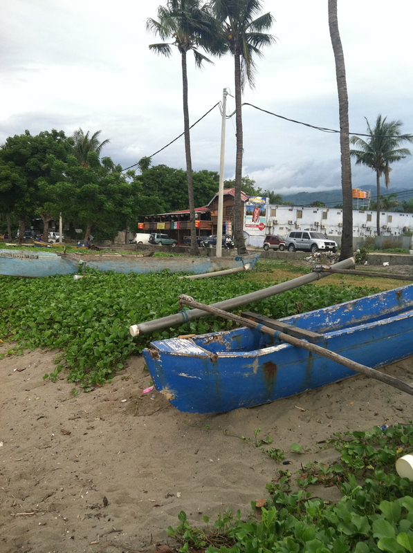 Beach of Kampung Alor, Dili